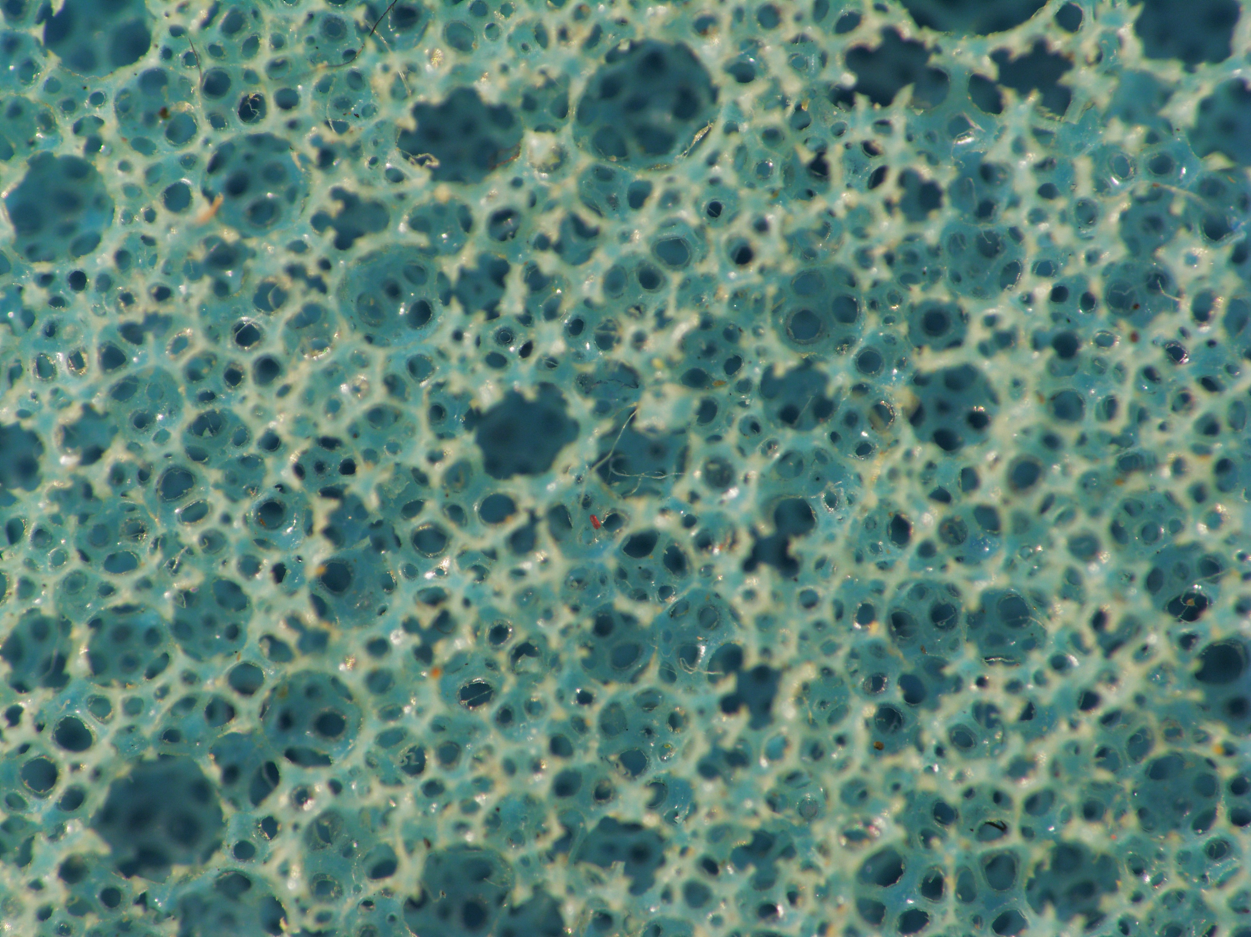 Some weird plastic foam. Excellent shock absorber.